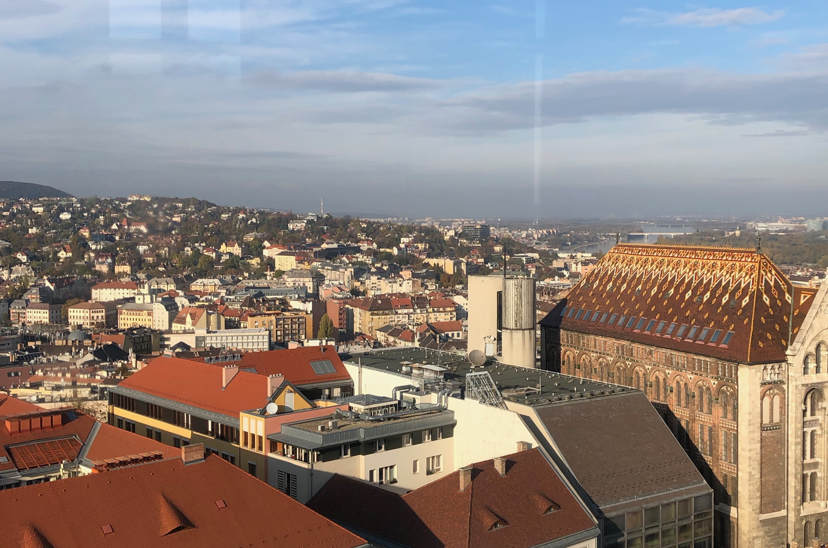 View from Budapest District I to Budapest II